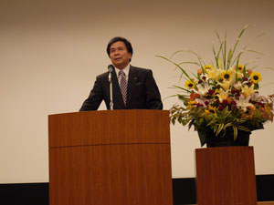 Ikuo Kabashima, Governor of Kumamoto Prefecture, attended a lecture meeting at the Parea in Kumamoto City, Kumamoto Prefecture on May 23, 2009. (For terms of use, see 文部科学省ウェブサイト利用規約：文部科学省.)